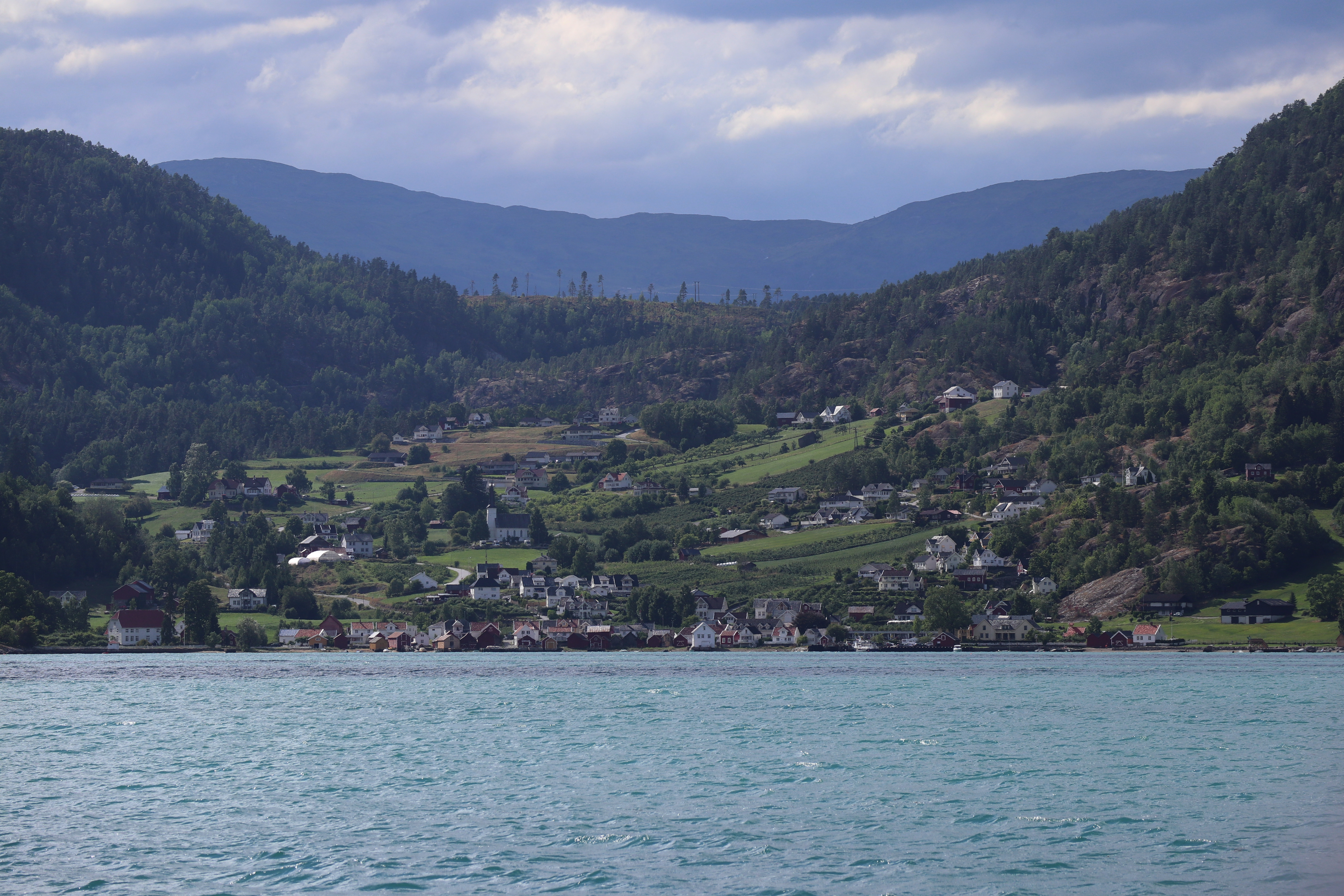 Wiev agains Solvorn in Luster